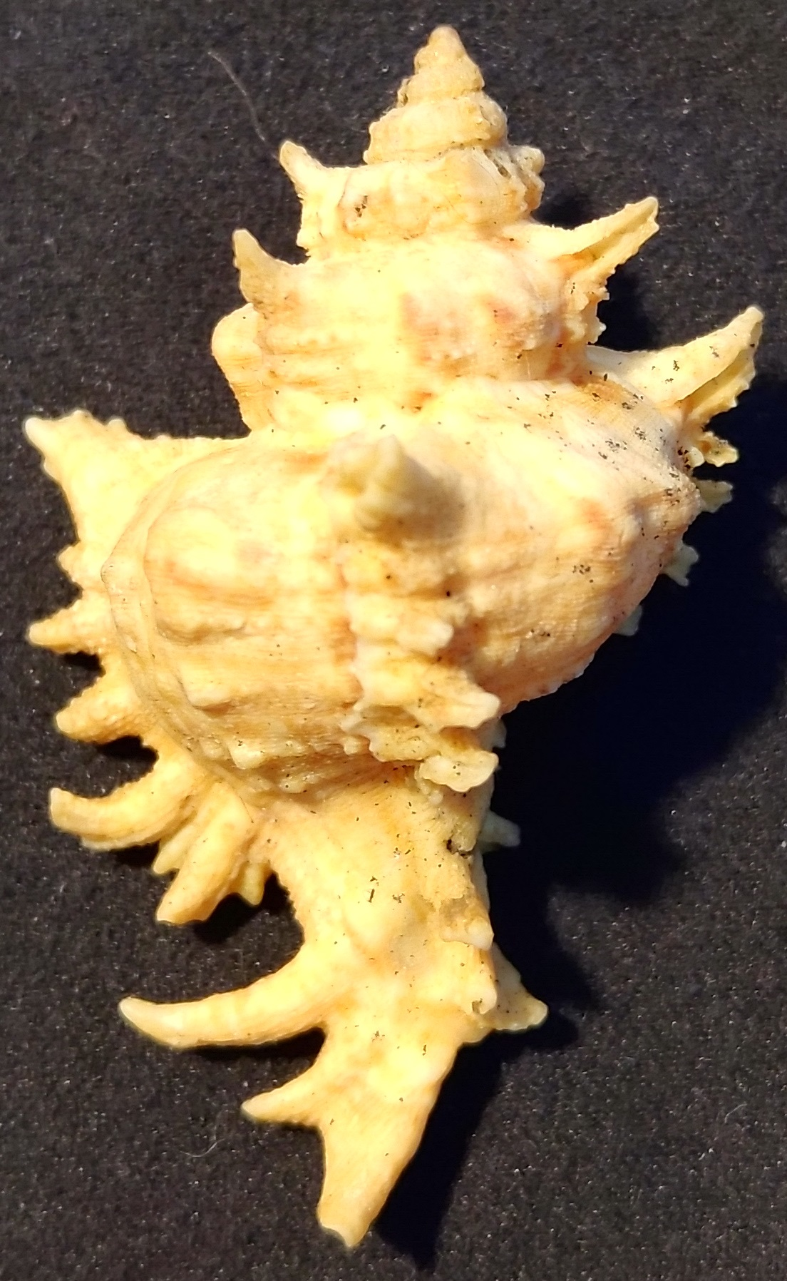 Chicoreus Austramosus Back